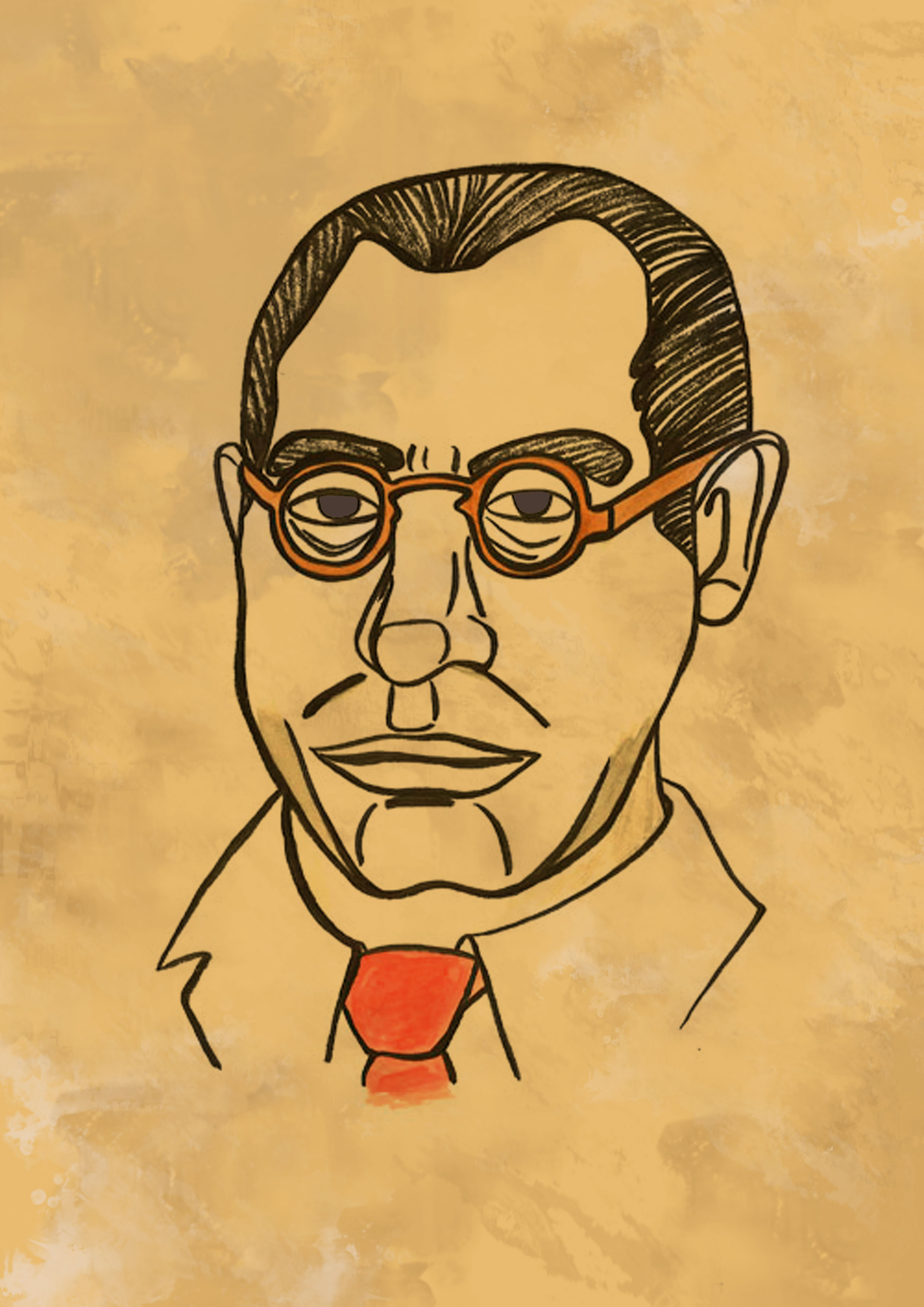 Portrait of John Comorera Soler (1894-1958). Secretary General of the USC (Socialist Union of Catalonia) and PSUC (Unified Socialist Party of Catalonia), Minister of Economy of the Generlitat of Catalonia (1934-1940) during the administration of the President of the Generalitat of Catalonia Lluís Companys (1934-1940). Approximate age of the picture: 40. Technique: Japanese ink and watercolors. This image was provided to Wikimedia Commons as a contribution from an Art&Design School thanks of a collaboration between Llotja and Amical Wikimedia.